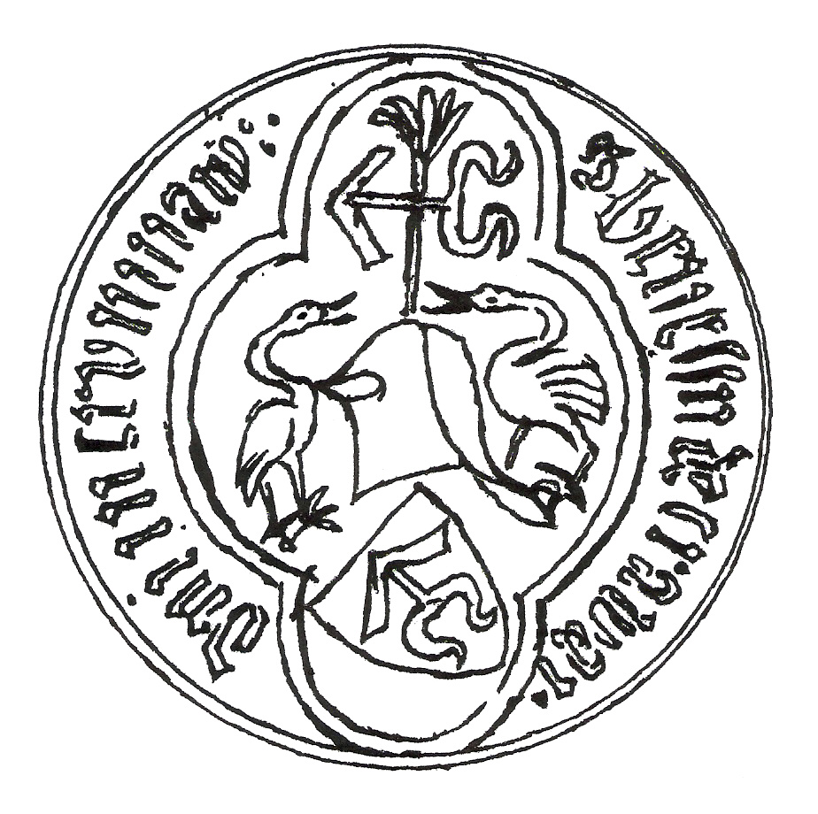 Seal of Beneš of Kravaře (1389).